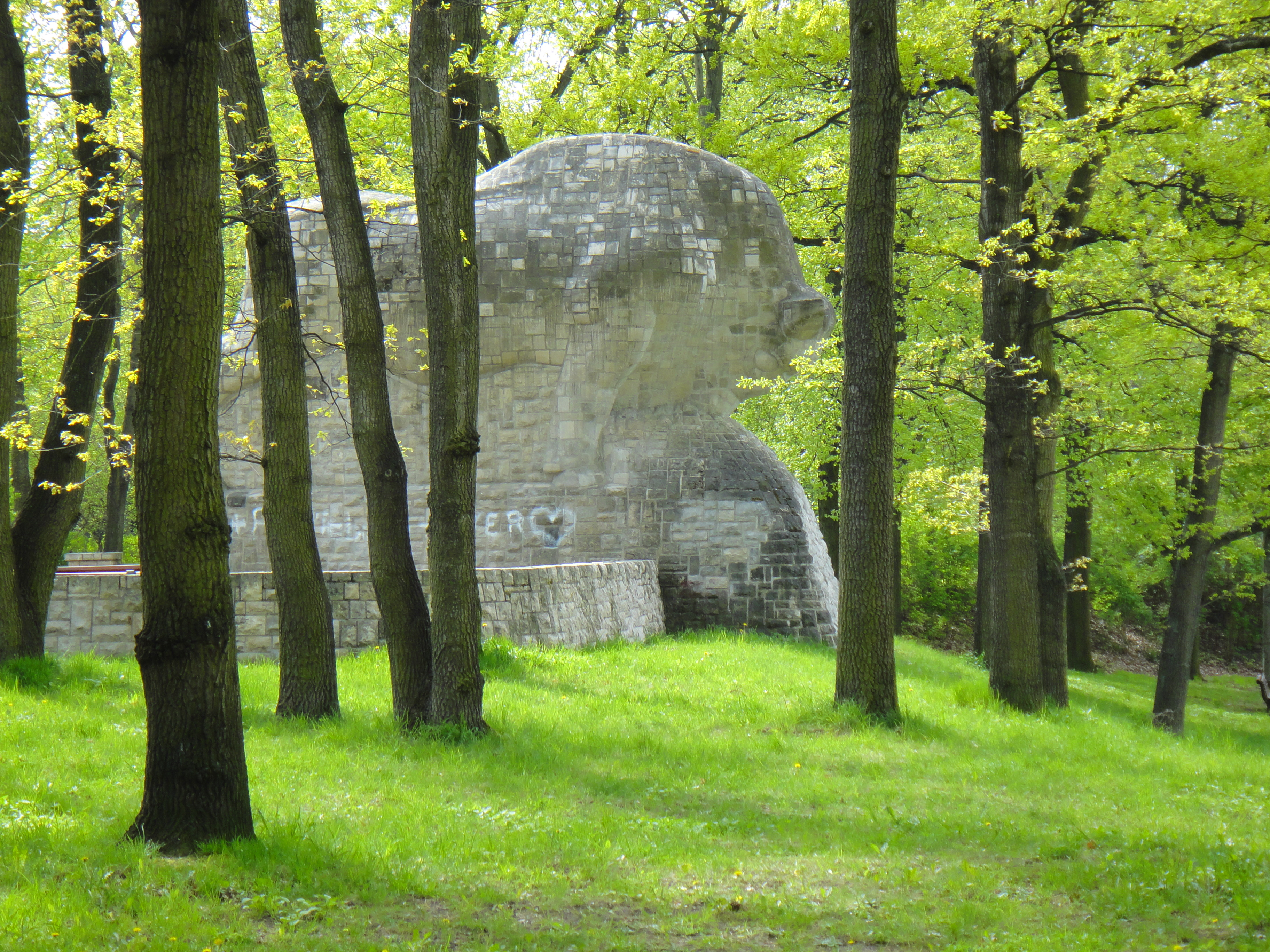 Berlin in May